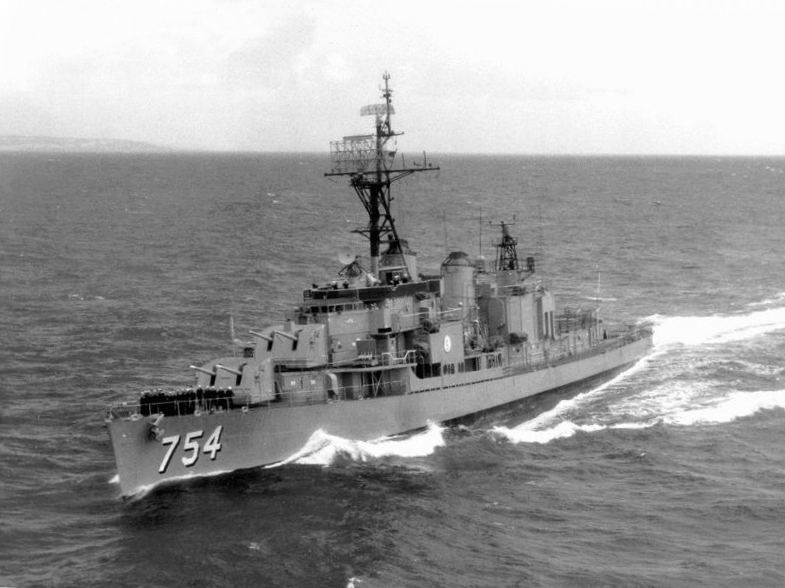 The U.S. Navy destroyer USS Frank E. Evans (DD-754) at sea in April 1963.